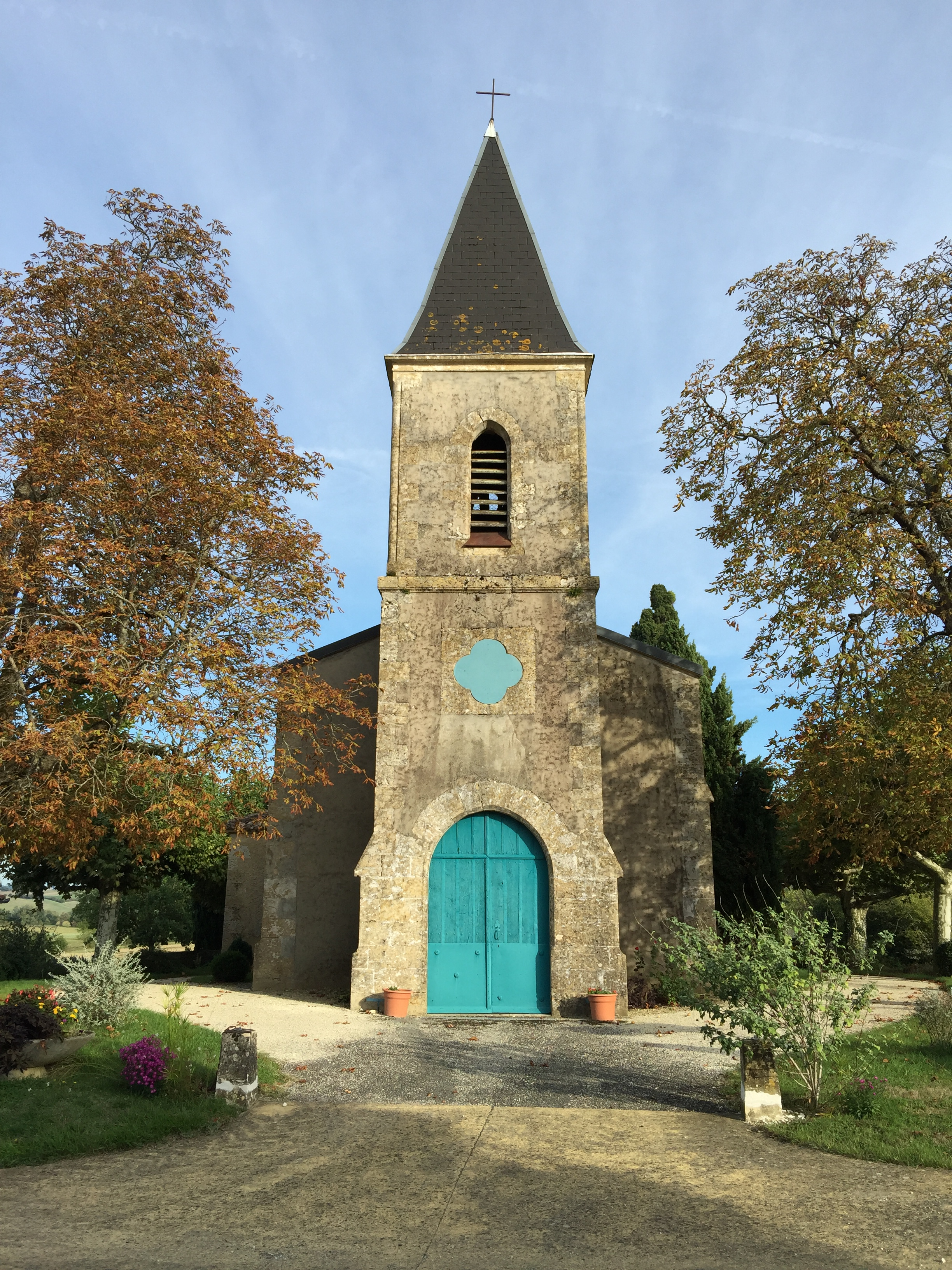 Church of Saint-Charles-Borromée in Lamothe-Goas